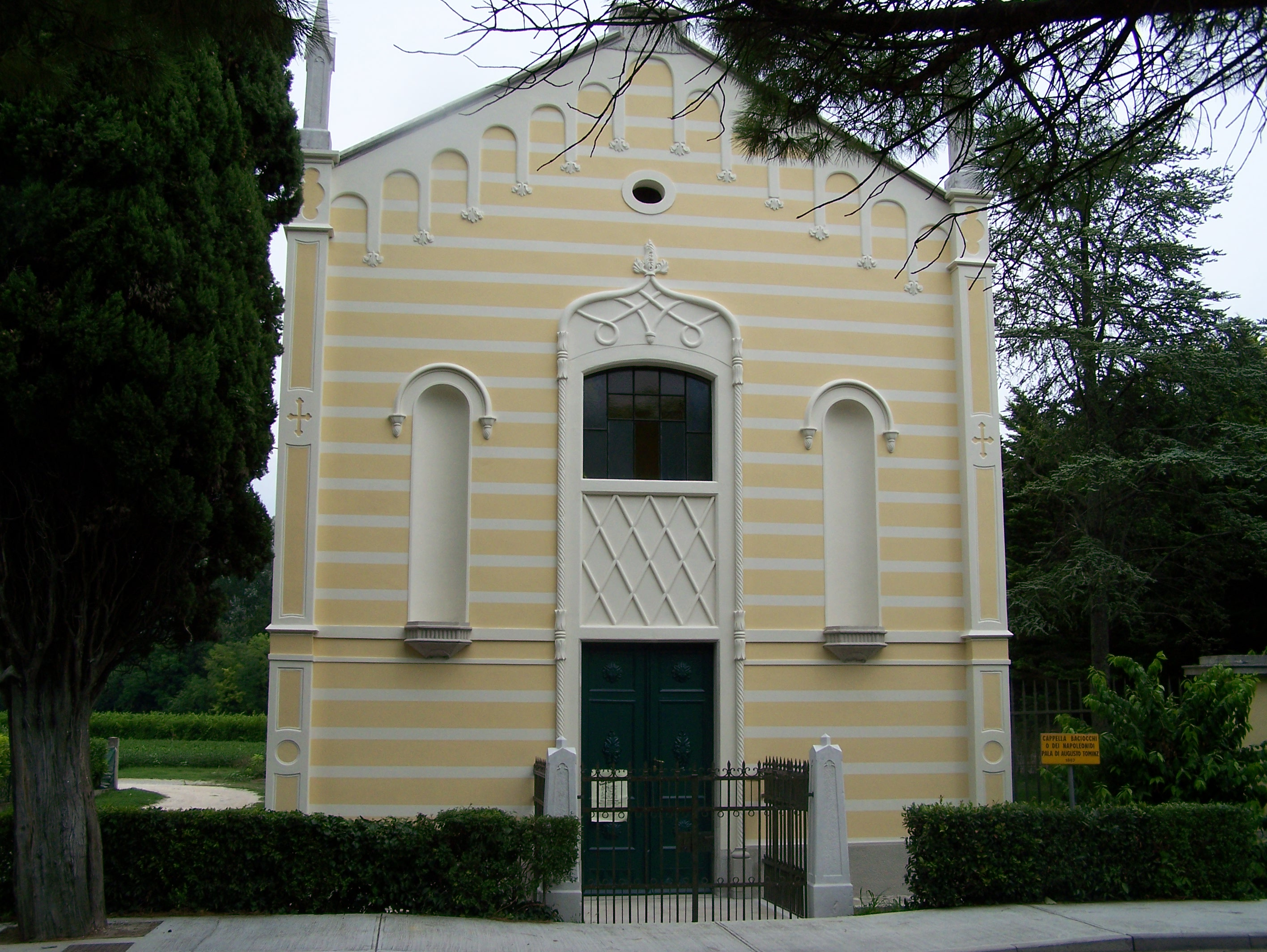 Baciocchi capel, in Villa Vicentina/Vile Visintine, Udine province, north-east Italy